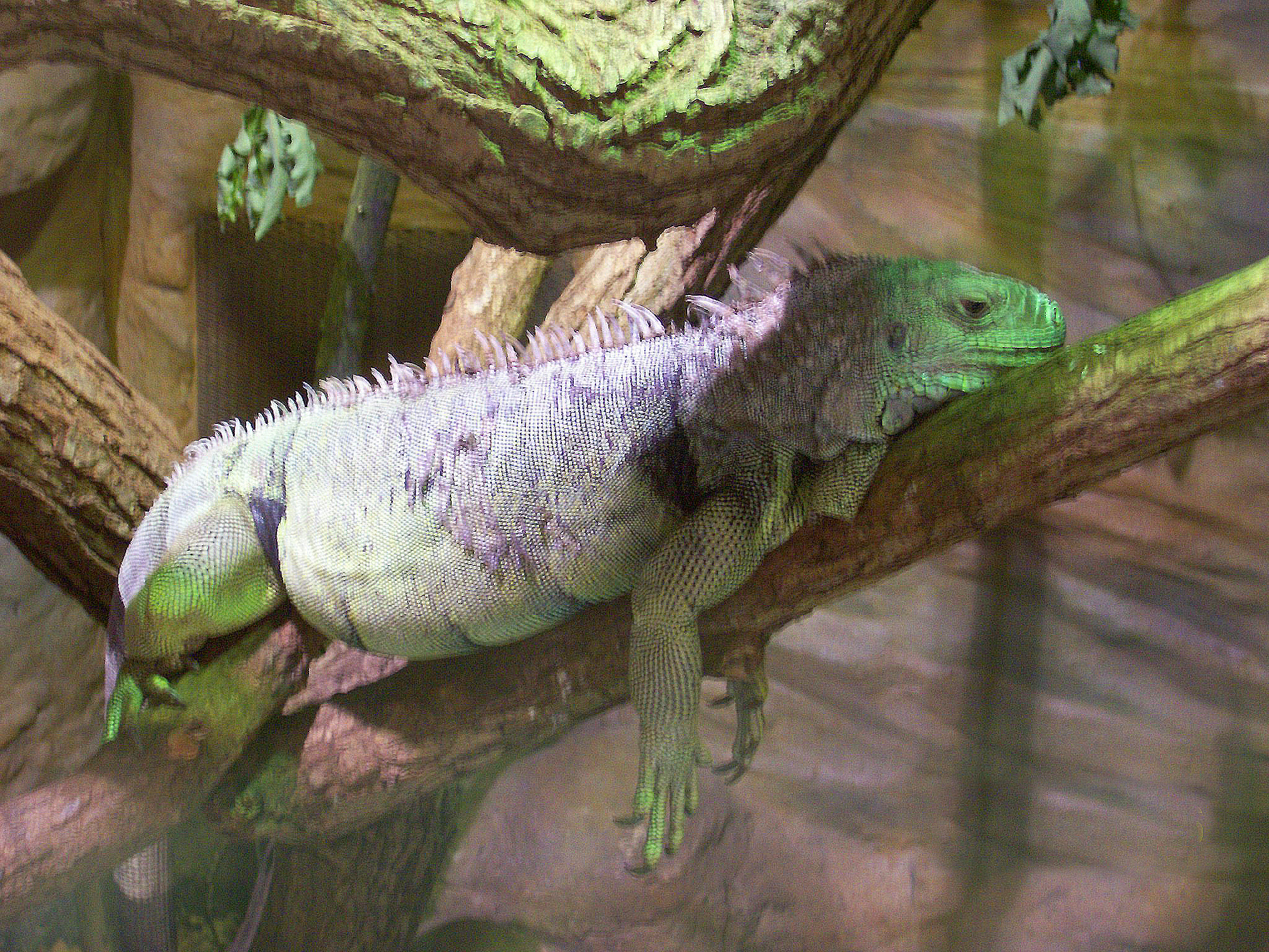 Iguana iguana in ZOO Plzeň